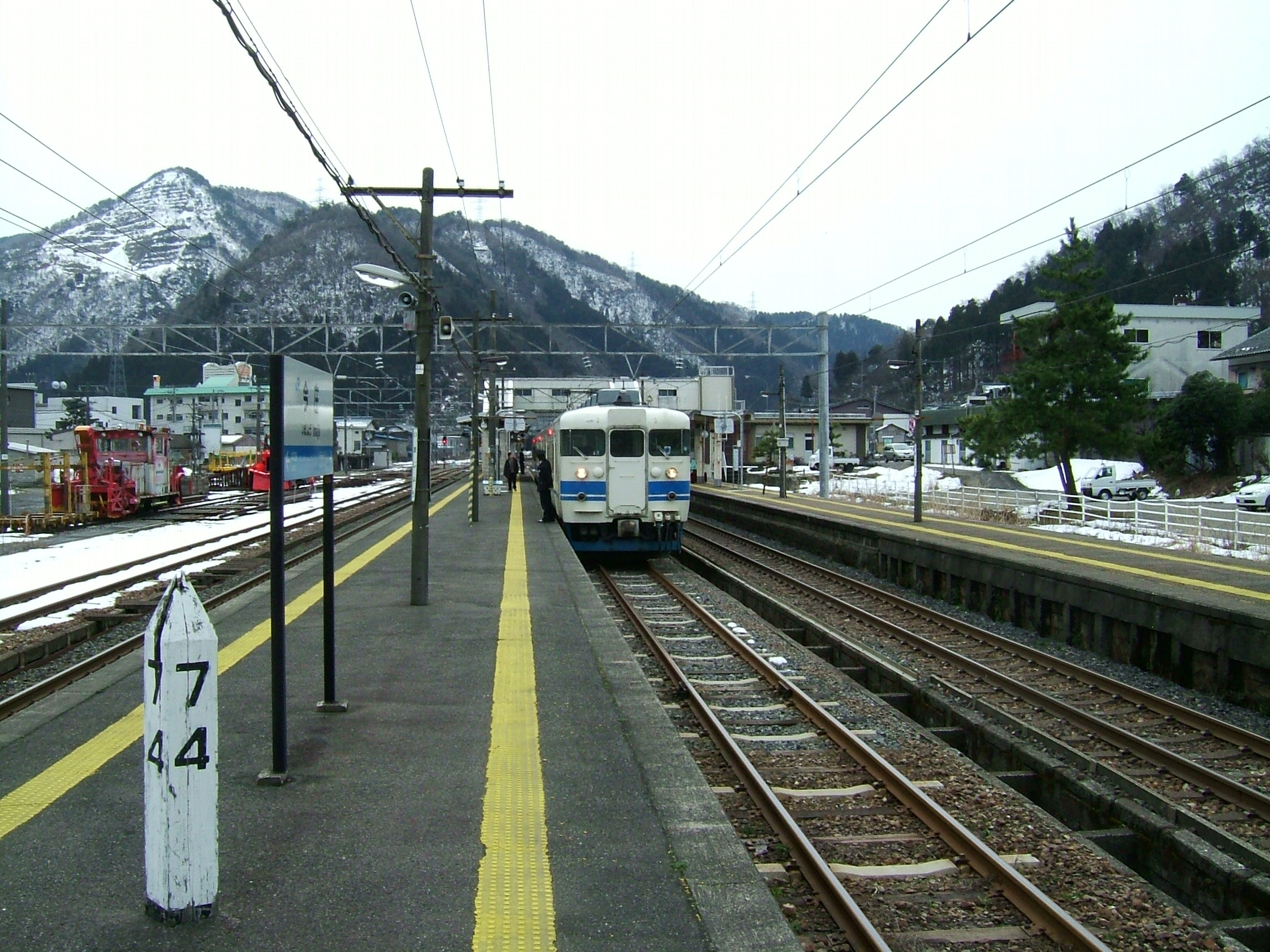 The platforms at Imajo Station on the Hokuriku Main Line in Fukui Prefecture, Japan